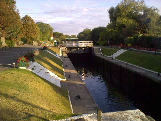 Bray Lock